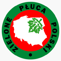 Logo, znak Fundacji Zielone Płuca Polski